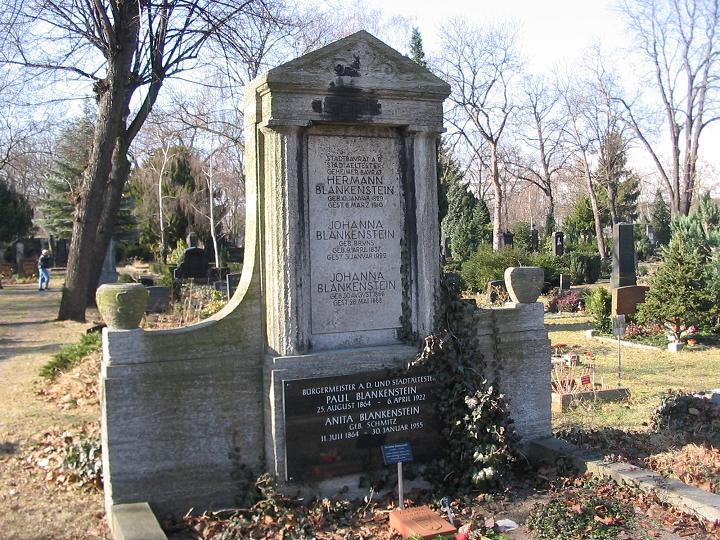 Honour-grave (Ehrengrab) Hermann Blankenstein, architect and government building officer in Berlin, at the graveyards „Friedhöfe am Halleschen Tor“, Berlin-Kreuzberg